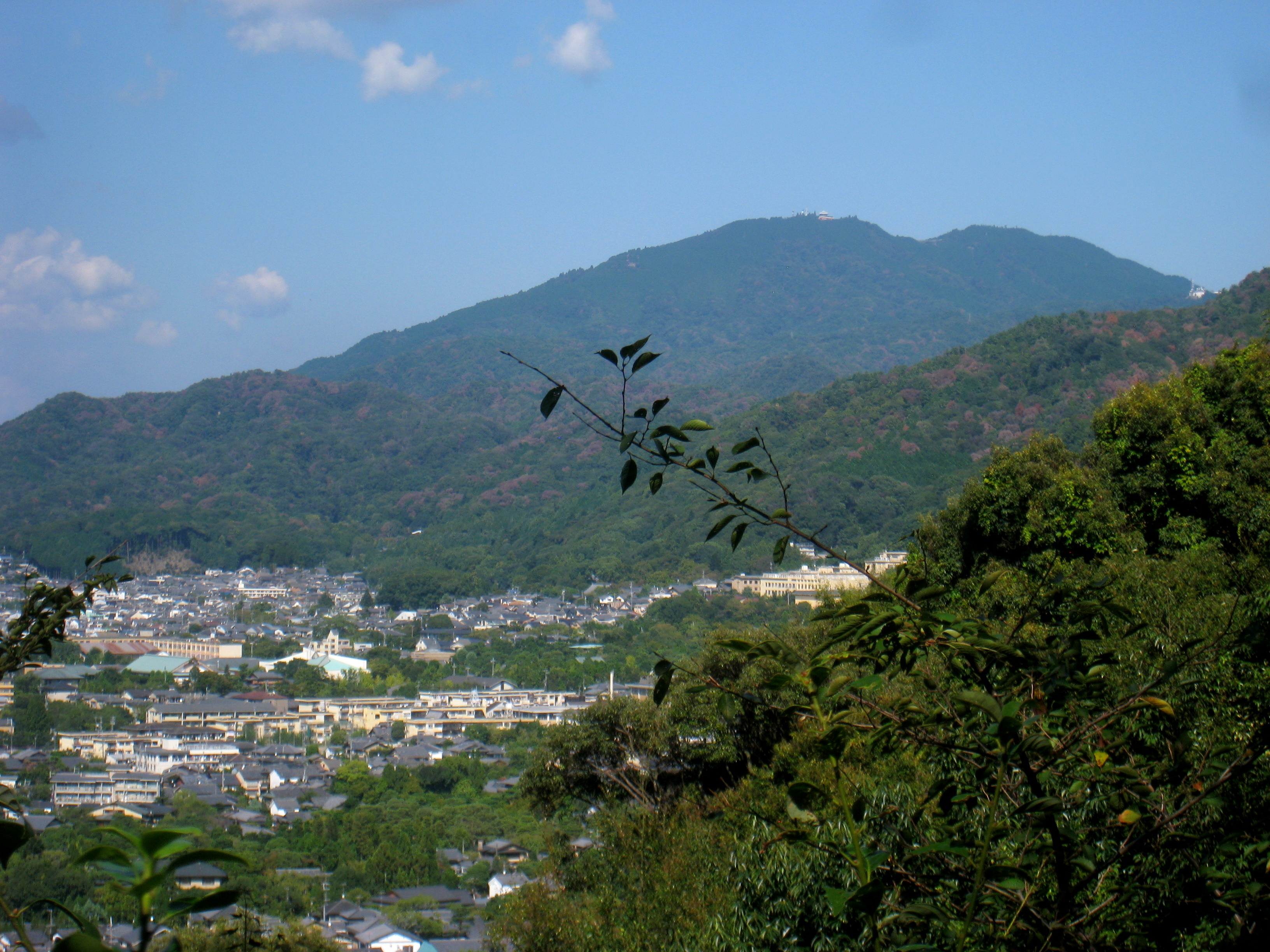 Mount Hiei as seen from Kyoto, Japan.